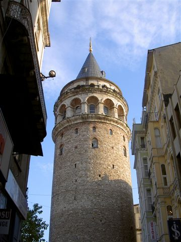 Galata Tower in Istanbul